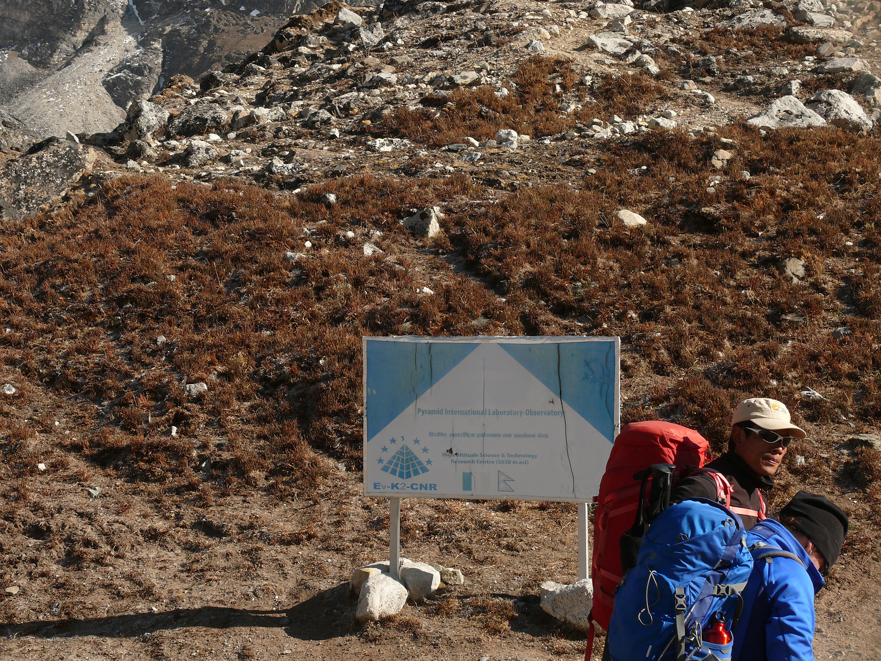 Pyramid International Laboratory Observatory near Lobuche